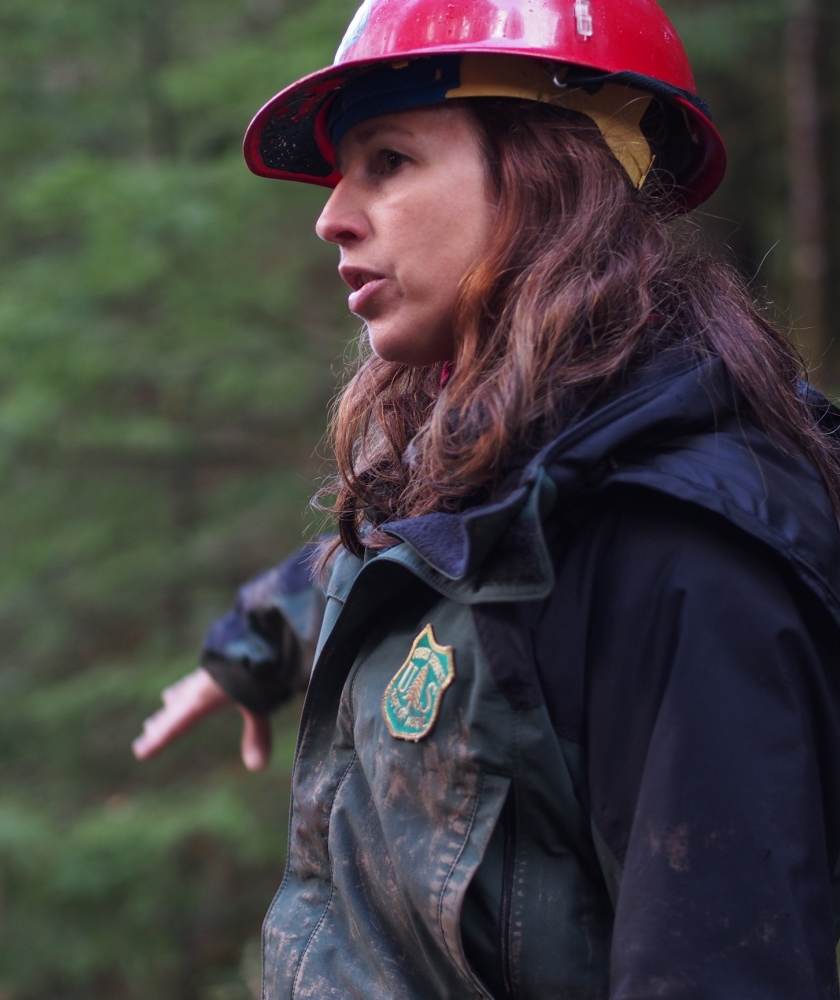 cropped - Mt. Hood NF Employee Supervises Stream Restoration, Mt Hood National Forest